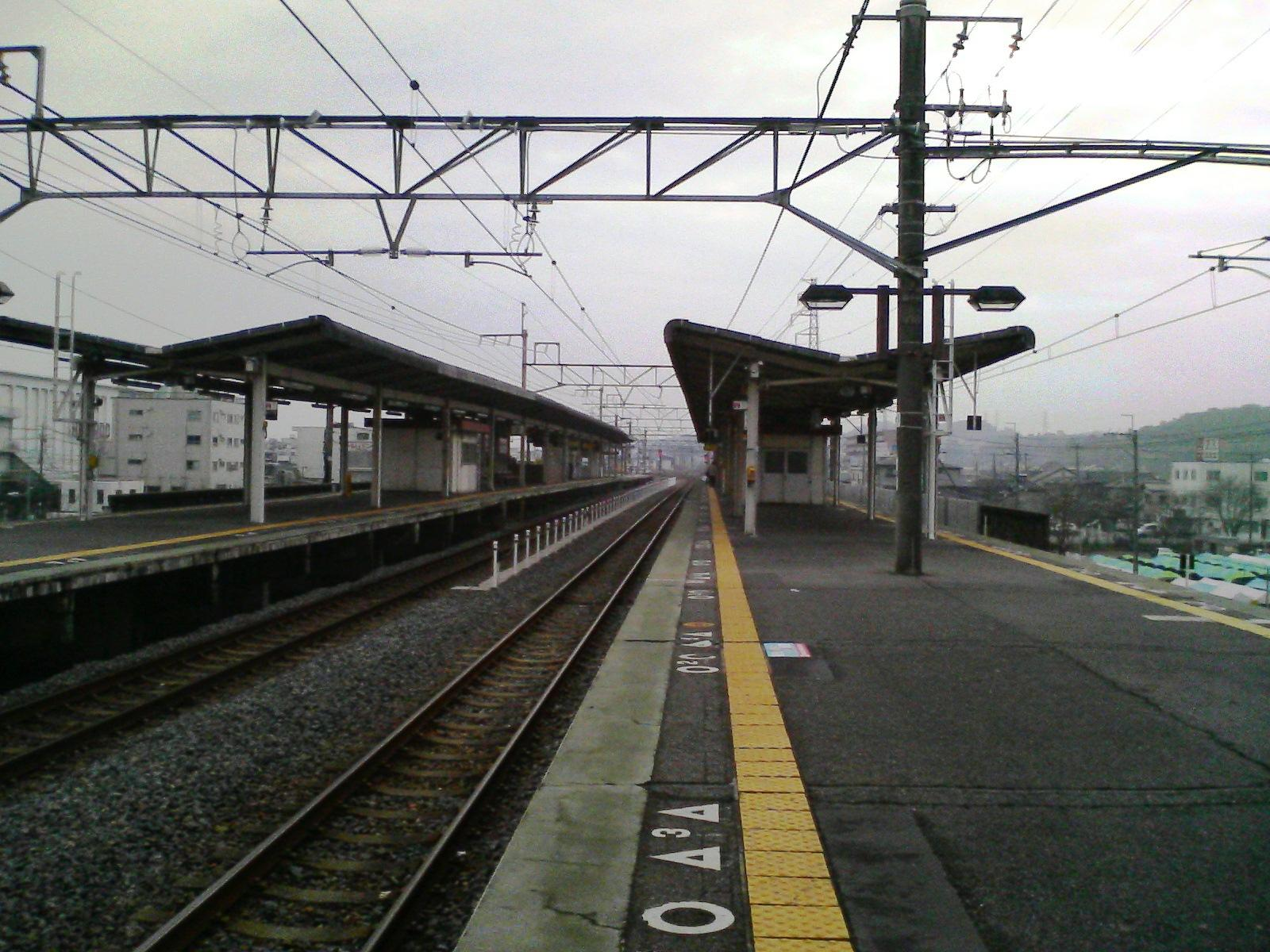 JR Katata Station